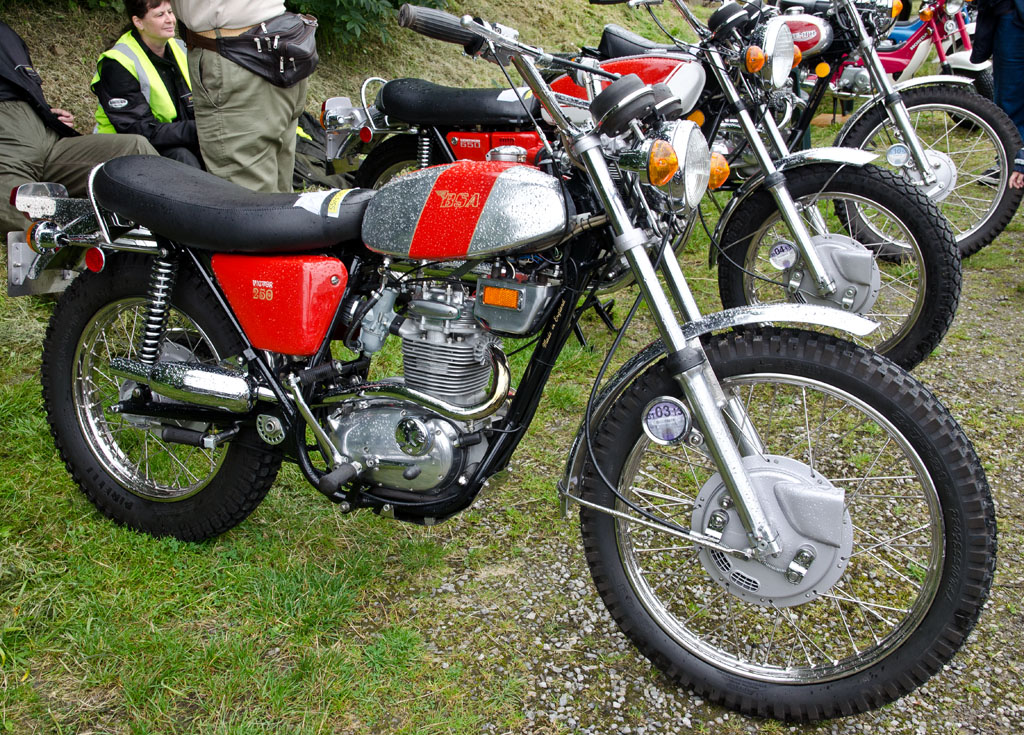 Burley Classic Vehicle Show 2012